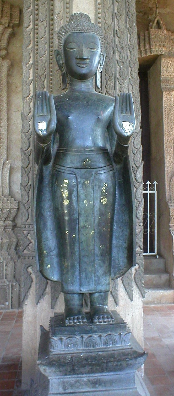 Museum of Ho Phra Keo (Vientiane, Laos). Bouddha statue, bronze XVIII th century (outside gallery). Myself-made picture. January 2006 Siren-Com 04:09, 25 January 2006 (UTC)